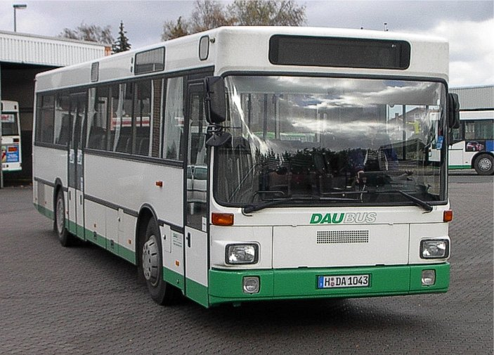 MAN SÜ242 bus in Barsinghausen, Germany. Built 1992. DauBus GmbH company.